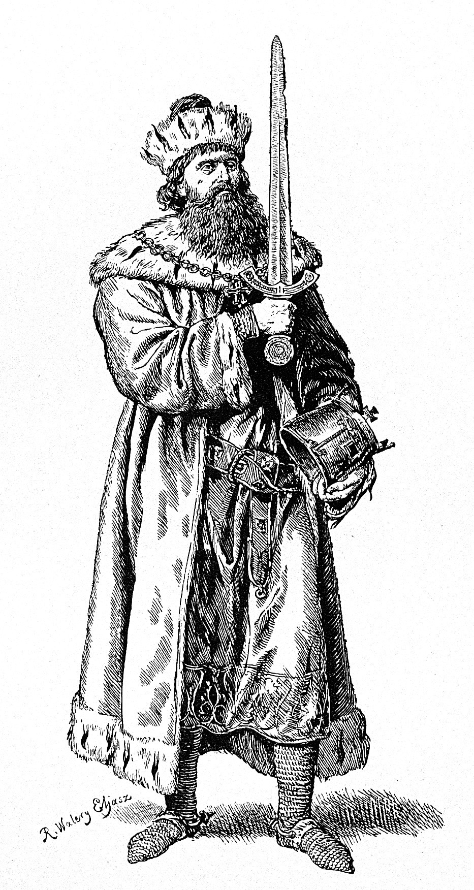 Casimir the Just, Duke of Poland